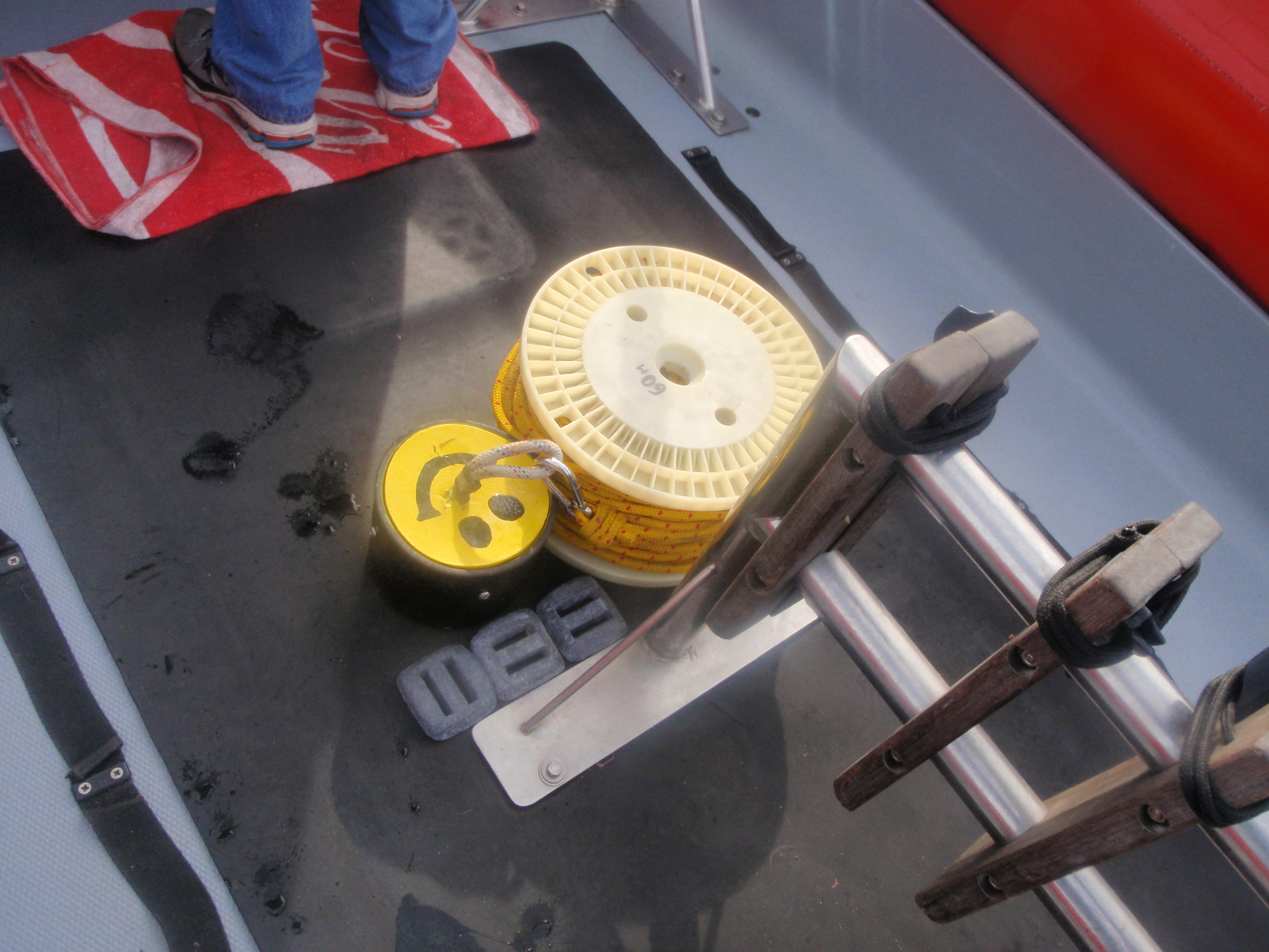 A shot line and reel ready for deployment from a dive boat